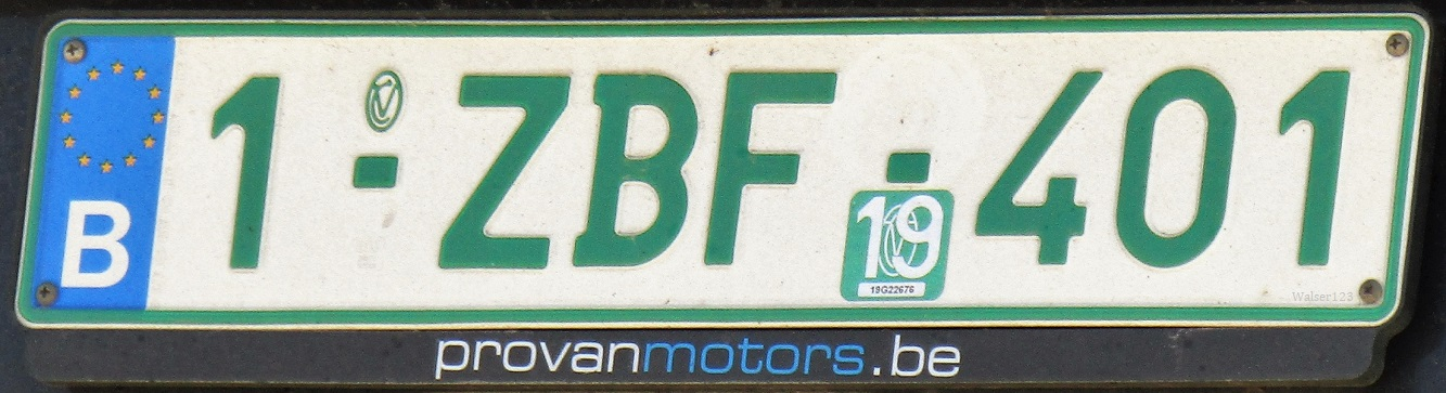 2019 Belgian dealer plate